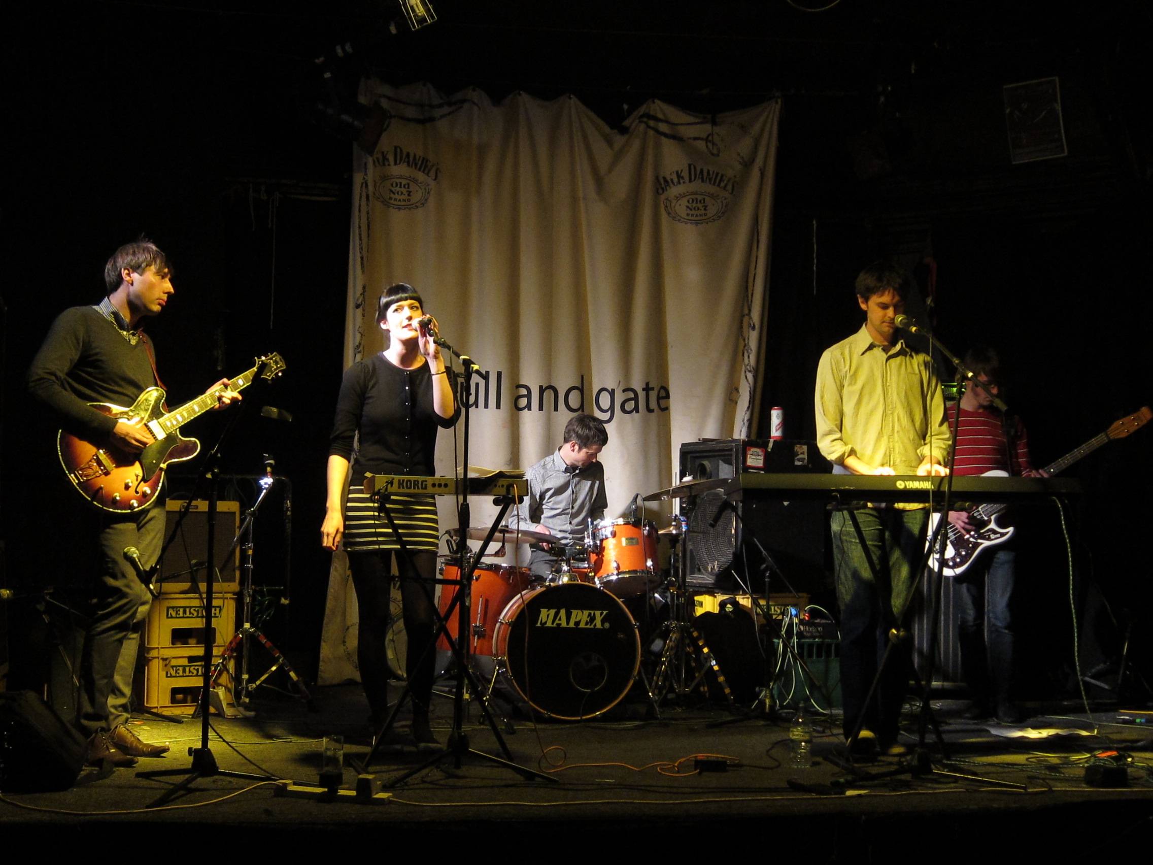 Pocketbooks, Bull And Gate, London, 13 May 2010.